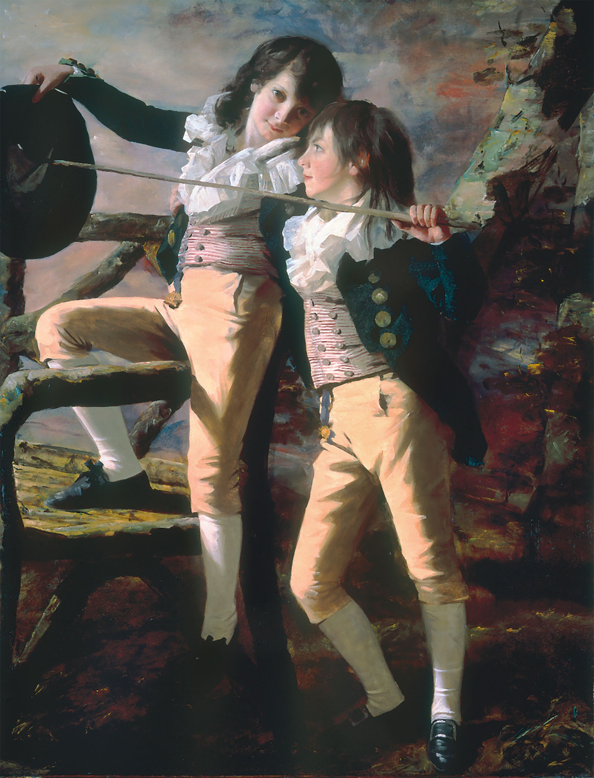 John Lee Allen (b. 1781) and James Allen (b. 1783) were the sons of John Allen of Inchmartine, on the north bank of the Tay estuary near Perth, Scotland.